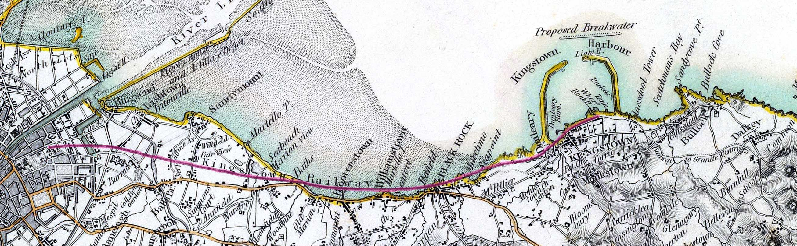 1837 map (extract): The environs of Dublin